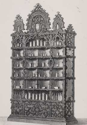 Pharmacist Alfred Benzon's pharmacy exhibited at the World's Fair of 1862 in London. The pharmacy was described along with this illustration in the Danish weekly Illustreret Tidende, on June 29, 1862.